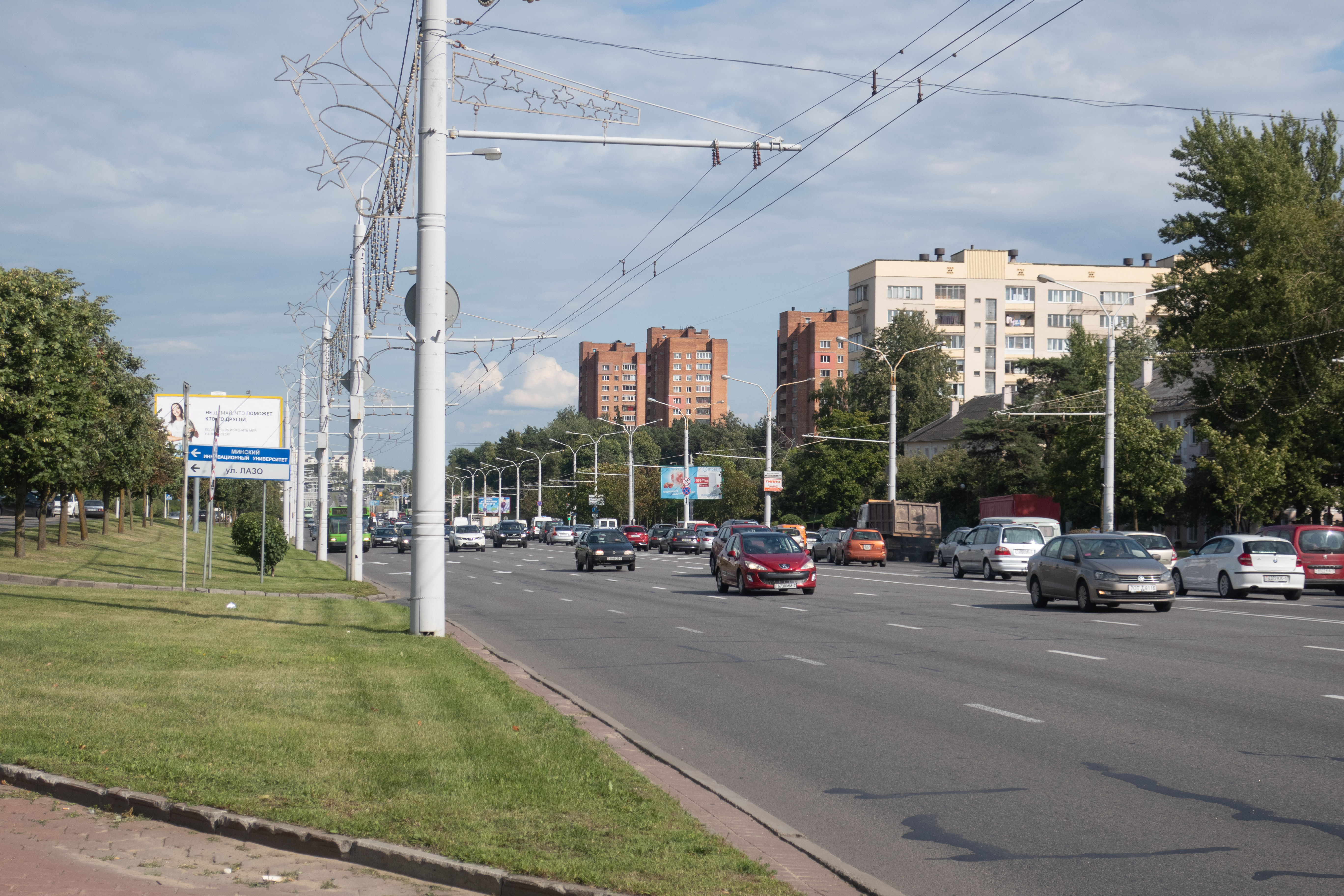 Partyzanski avenue. Minsk, Belarus